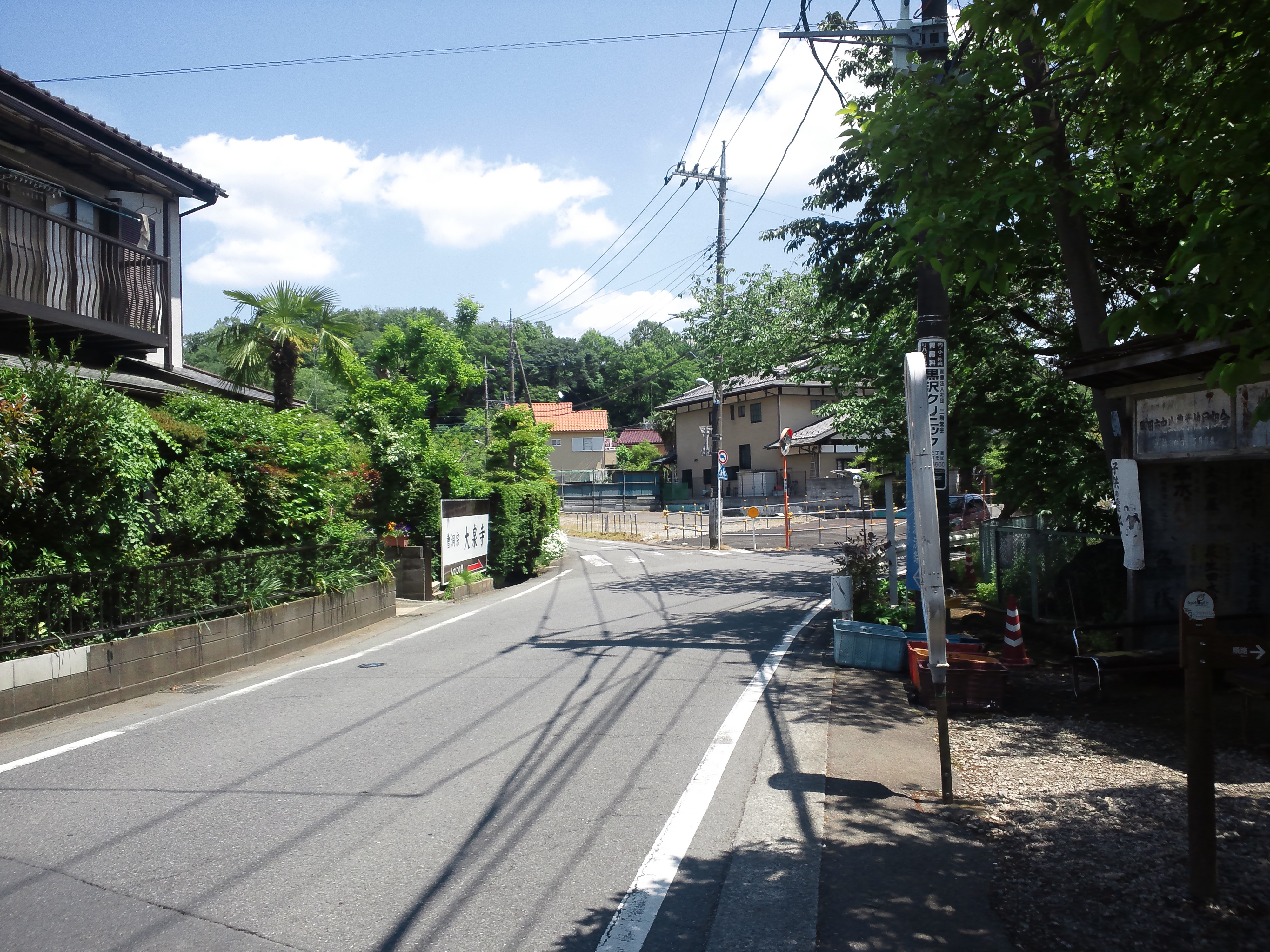 Tokyo Metropolitan Road Route 155 in Machida City